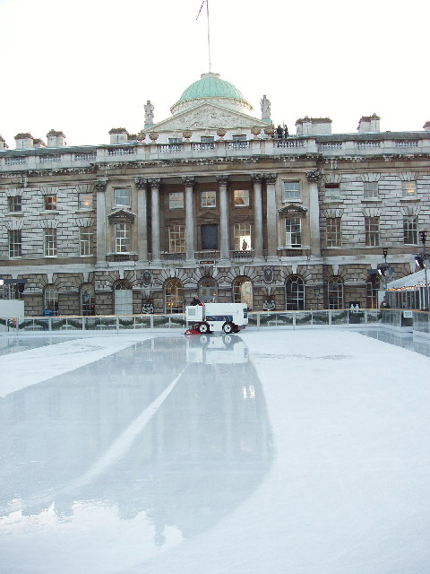 Ice rink surface preparation, Somerset House. The ice rink is installed in the courtyard for two months over Christmas. Here the surface is being smoothed between skating sessions.